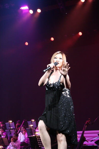 Jennifer Kim at Babb Prapas Concert's concert at National Cultural Center, Sunday 6th July, 2008. 07.00 PM